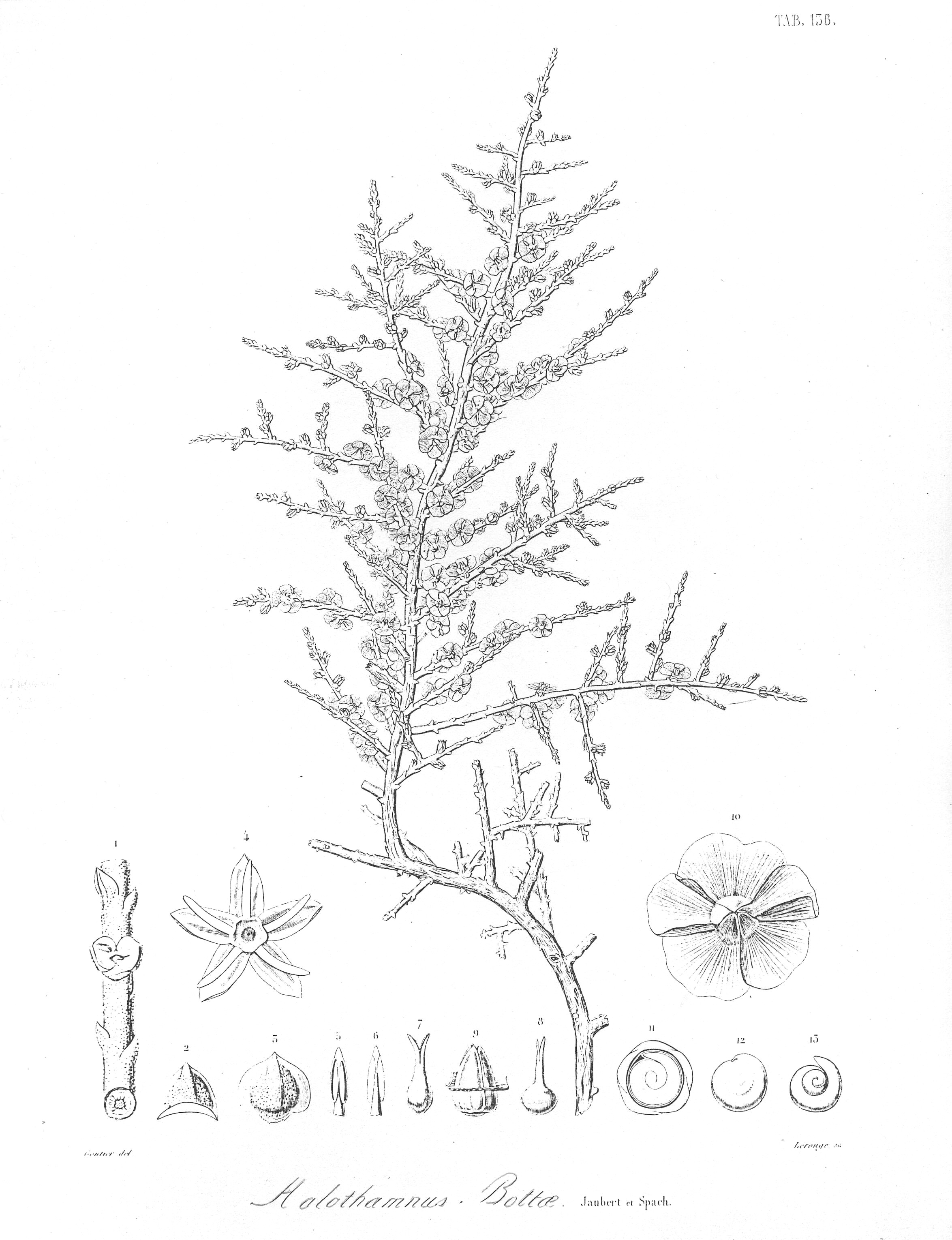 Halothamnus bottae Jaub. & Spach, from Jaubert, H.F. & Spach, E. 1845. Illustrationes Plantarum Orientalium 2: tab.136.